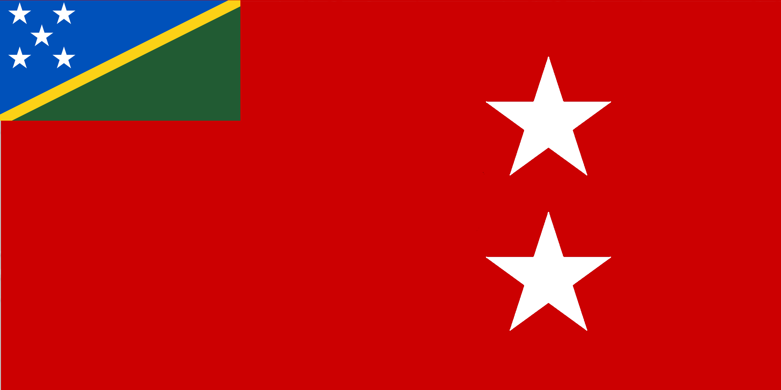 Flag of Temotu Province Solomon Islands